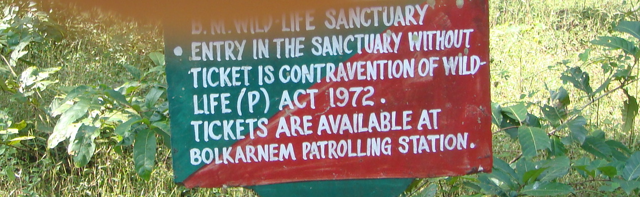 Mollem National Park, Ticket sign